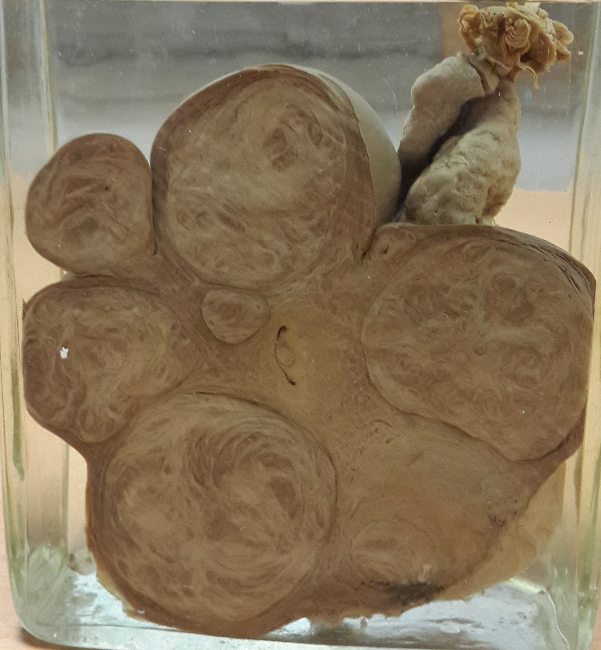 multiple uterine leiomyoma, Pathology museum of Alexandria Faculty of Medicine